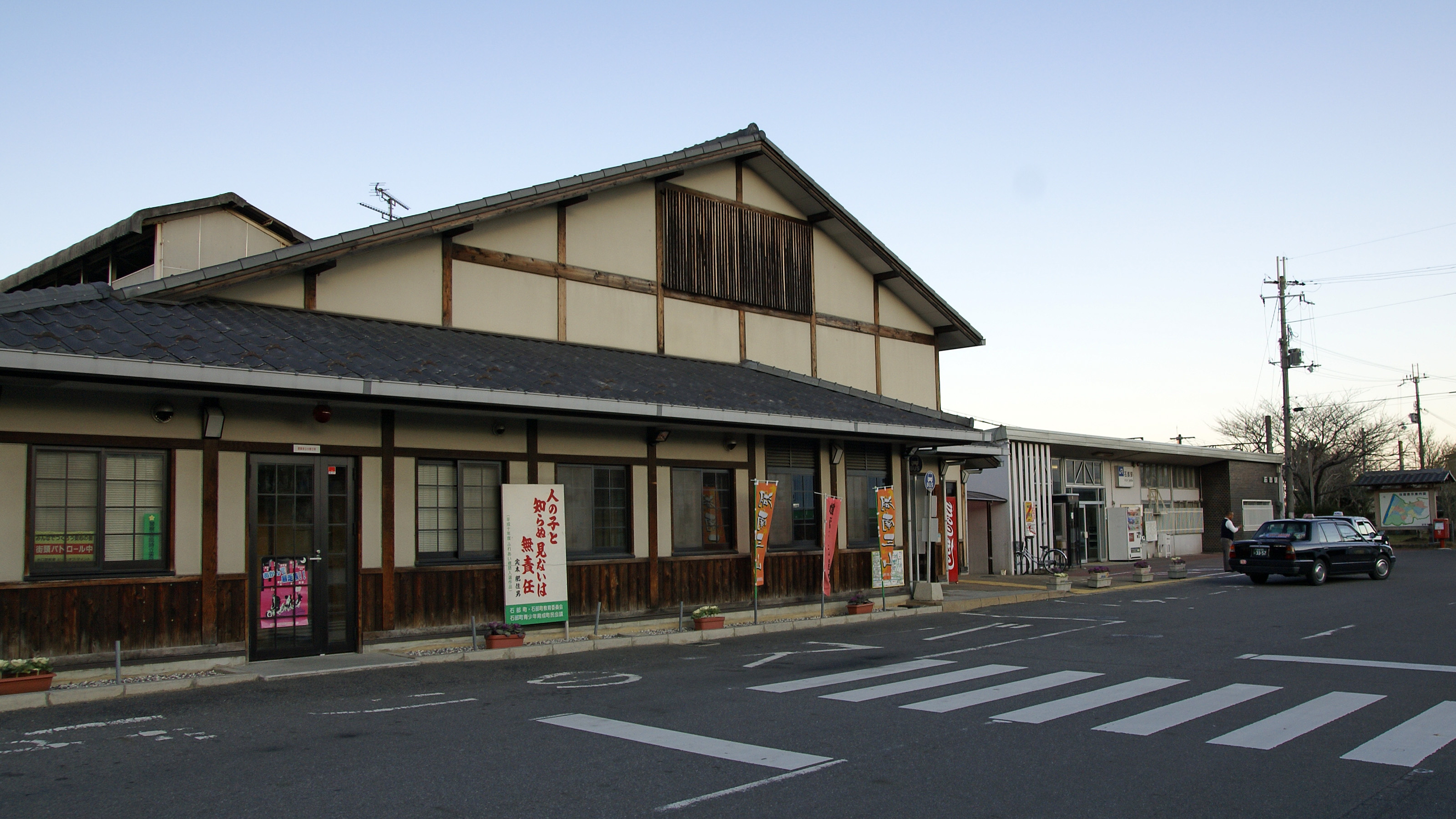 Ishibe Station in Konan, Shiga, Japan